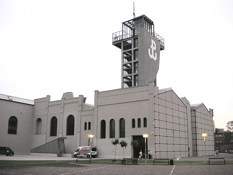 Made during a summer day in the Warsaw Uprising Museum. Rear view of the museum.